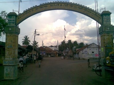 Elangakurichy entrance